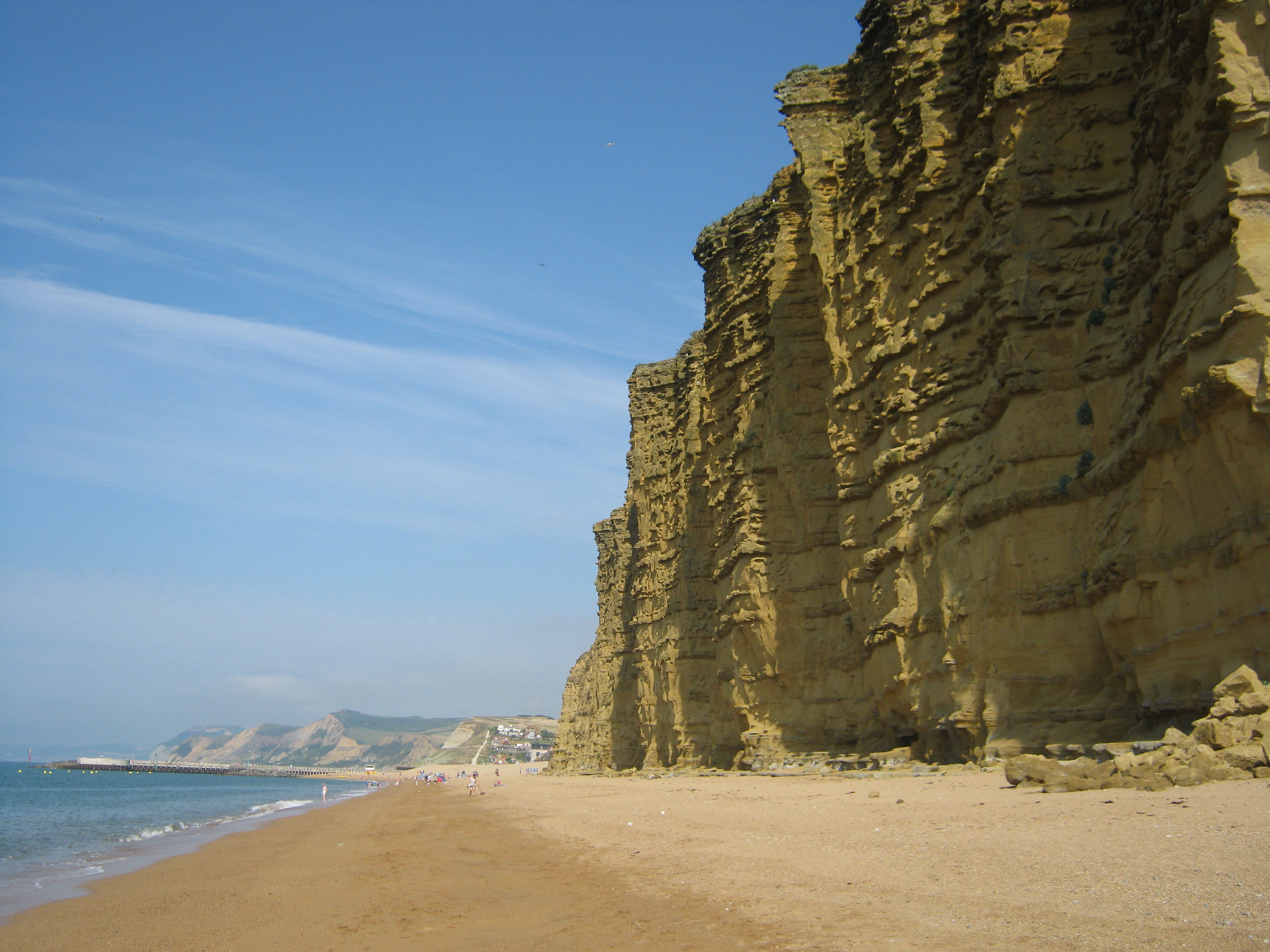 Jurassic Coast Cliffs, West Bay.